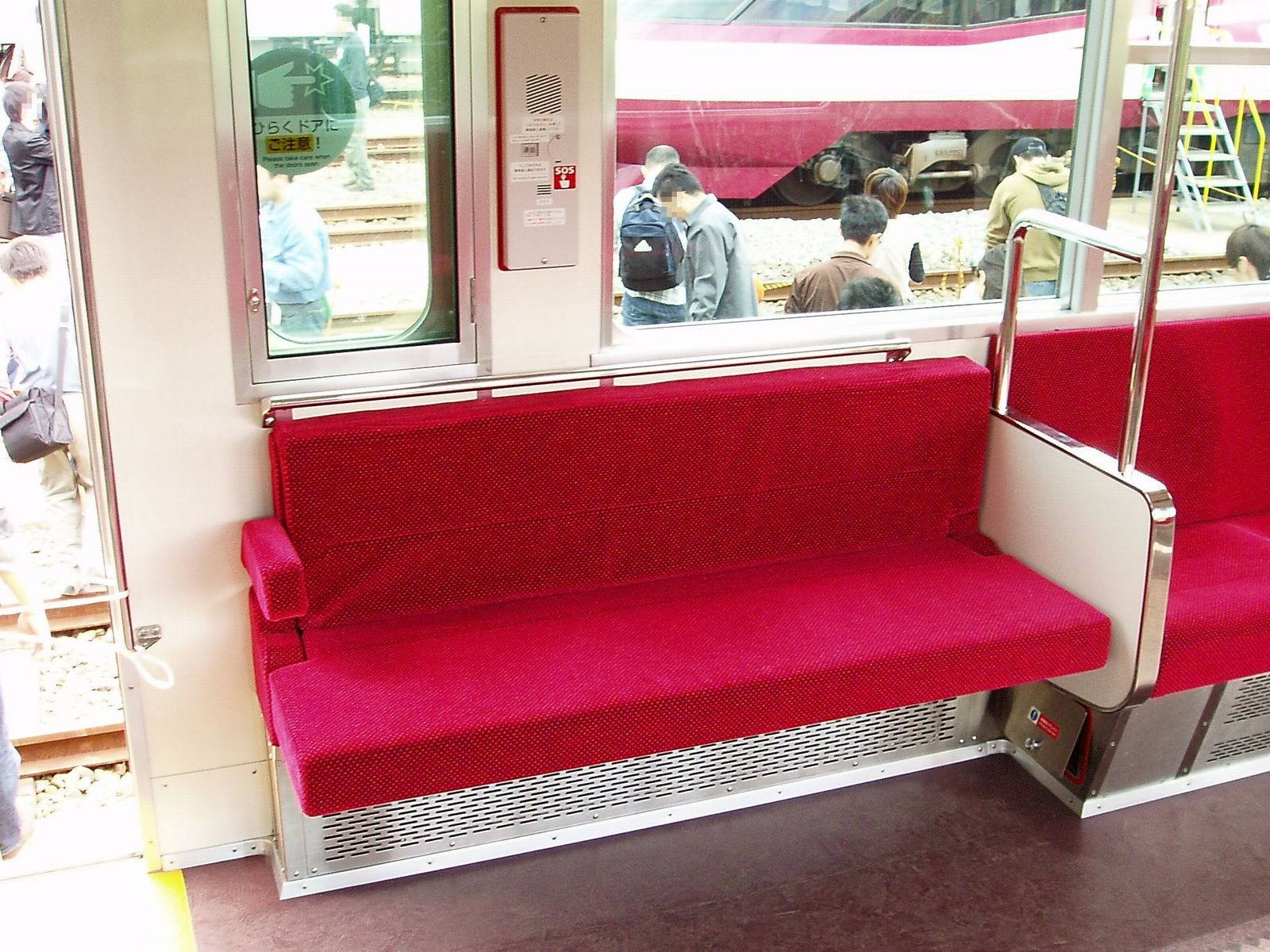 The reception seat is installed in the wheelchair space renewal vehicle of Odakyu 8000 type in the car (deployment state).